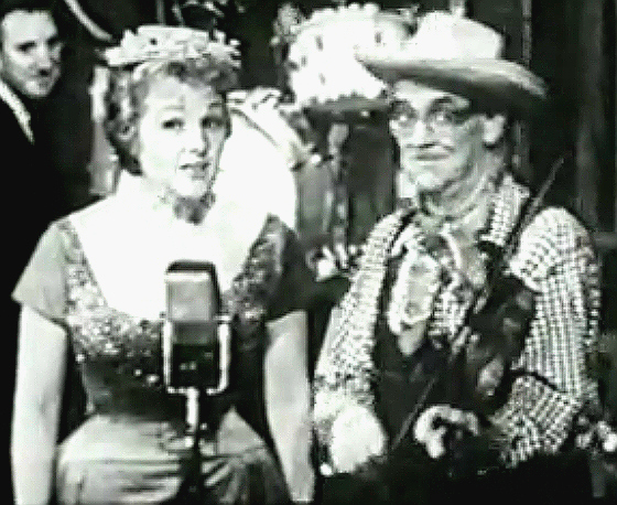 Jo Stafford and Red Ingle perform their 1947 hit "Tim-Tay-Shun" on Ford Startime. This is a screenshot of this segment of the show. Jo Stafford as Cinderella G. Stump and Red Ingle perform their 1947 hit "Tim-Tay-Shun" on Ford Startime. This is a screenshot of this segment of the show. The item can be dated from the original television air date. It can also be verified by viewing another clip from the program of Jo Stafford singing "The Gentleman Is a Dope". The television studio and set are the same in both video clips; Stafford performs solo and with Ingle wearing the same gown.Nostalgia With Let-Down Trimming 14 March 1960 Billboard The list of songs performed on The Swingin', Singin' Years includes both "The Gentleman Is a Dope" and "Temptation"; The Stafford/Ingle version was a song parody of this. Stafford and Ingle are also listed in the performers' credits. Since most television shows were under copyright by this time, the assumption is that there was originally a copyright on the television program, and that it would have been effective as of the year 1960. Copyright searches were performed on the following with the following results: The Swingin', Singin' Years--no information Startime--nothing was discovered which would apply to a television series or show. Ford Motor Company--for the year 1988--when any copyright would have been renewed--nothing was discovered which would apply to a television show. National Broadcasting Company-for the year 1988--nothing was discovered which applies to this particular television series or show. There is no evidence of any copyright renewal for this series or program in it.